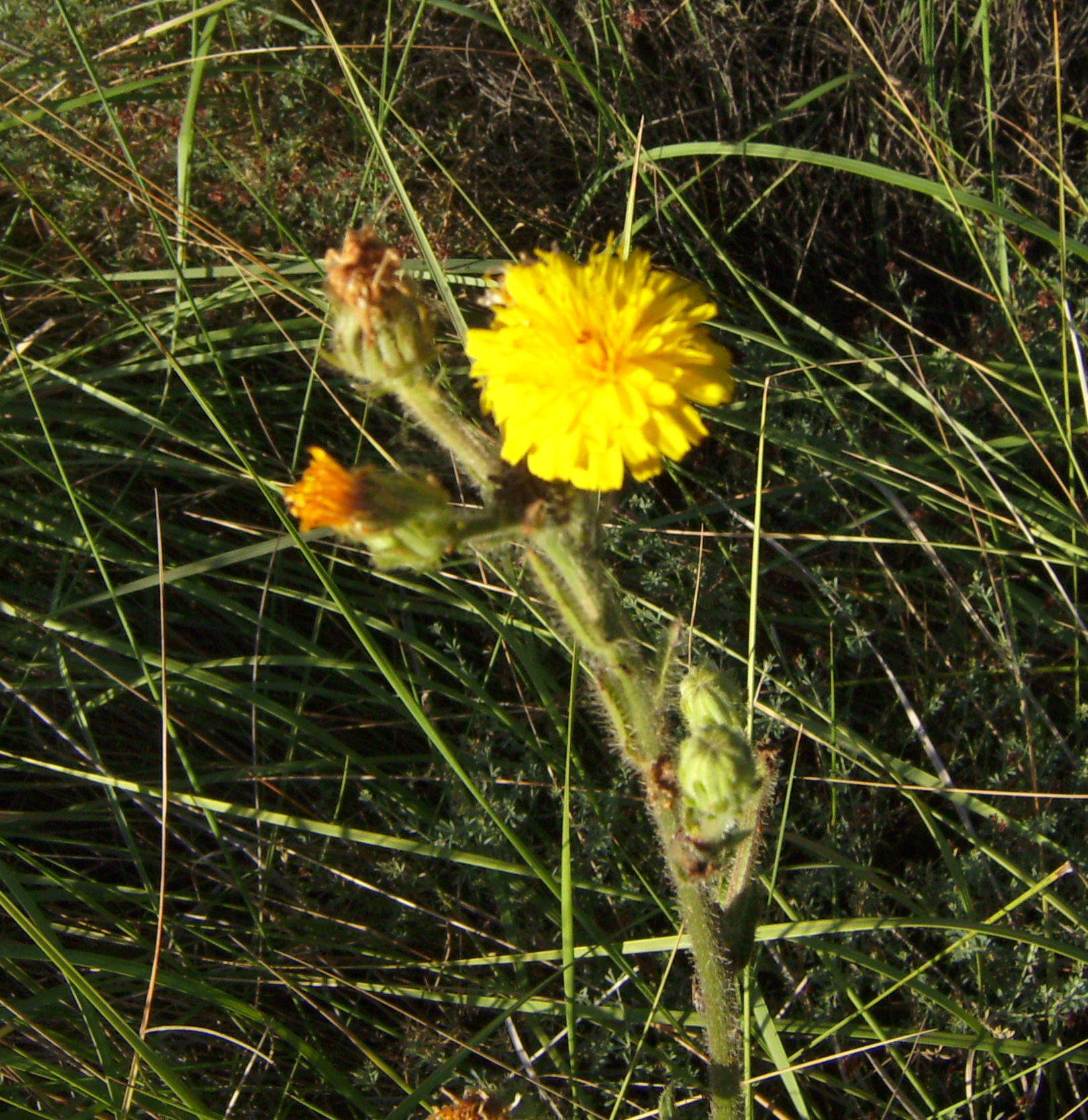 Flowers of Picris hieracioides, Castelltallat, Catalonia